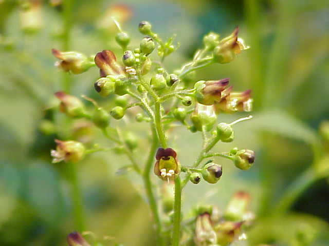 Species: Scrophularia nodosa Family: Scrophulariaceae Image No. 9